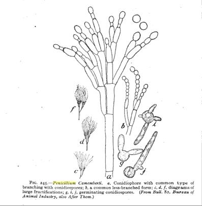 Drawing of Penicillium camamberti, the Camembert cheese-processing mold fungus